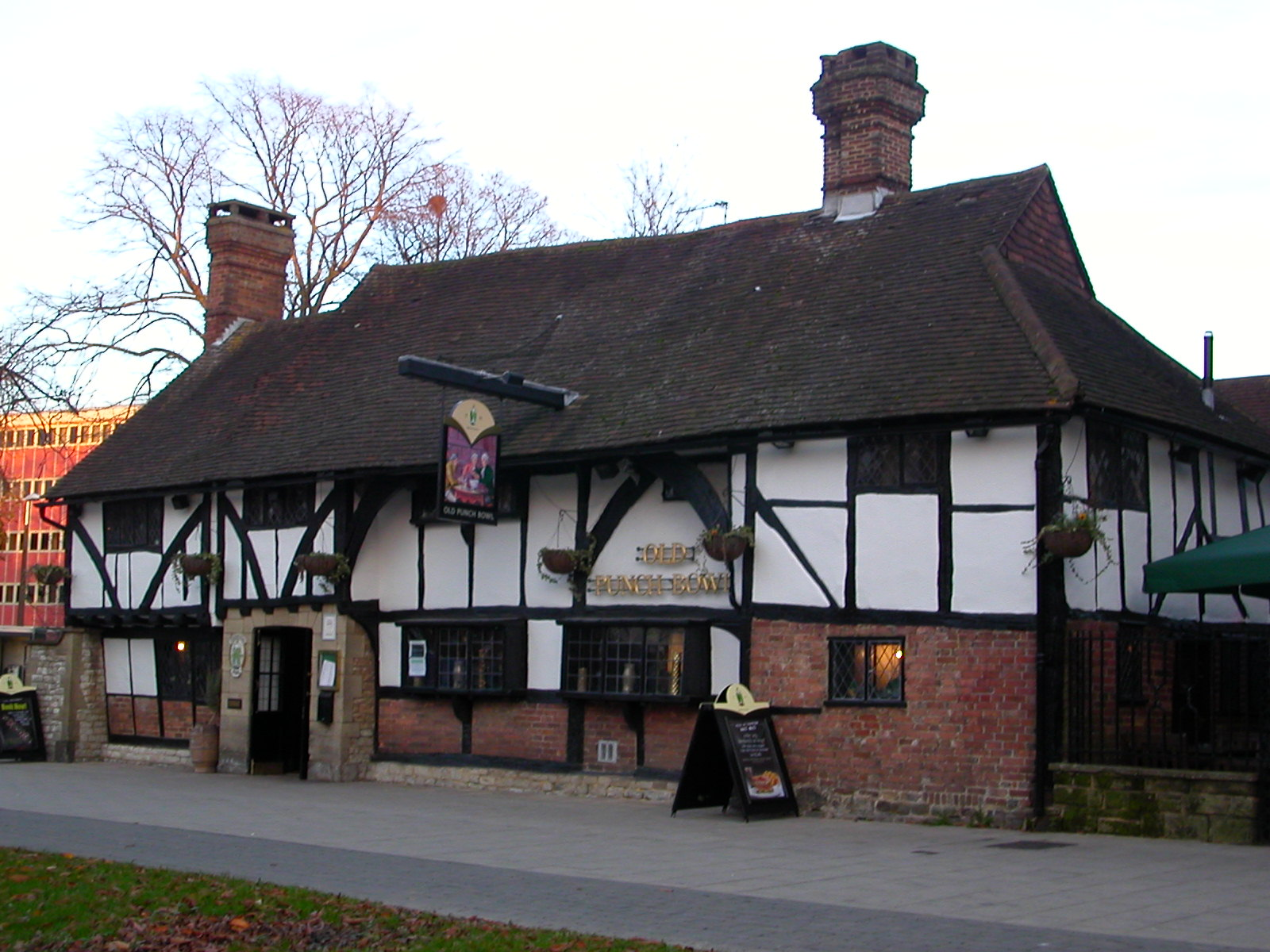 The Punch Bowl, 101 High Street, Crawley, West Sussex, England. A 15th-century timber-framed hall with a varied life: it has been a farmhouse, an inn, a bank and an inn again. Listed at Grade II* by English Heritage (ref #363350)